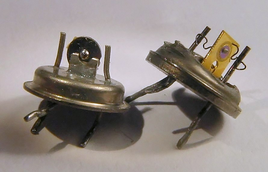 Transistors from Computer cards as used in the 1960's (sold as bulk trash in the beginning of the 70's). TO5 housing was removed. Manufacturer unknown.